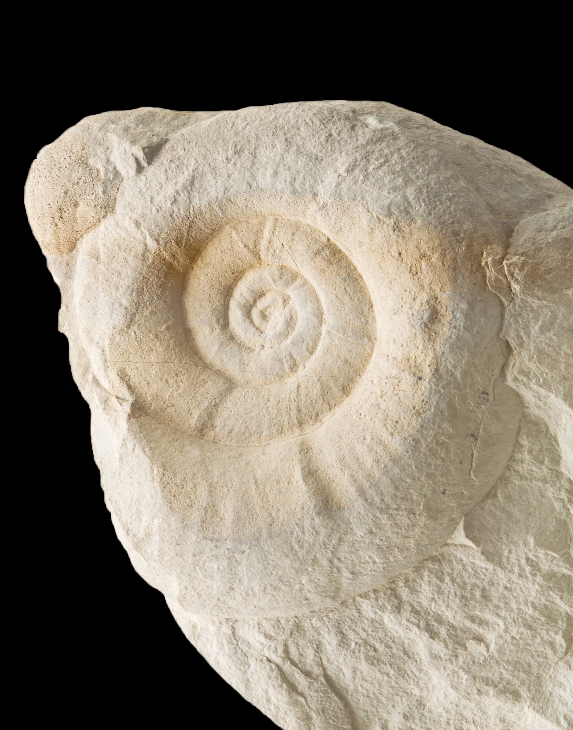 Silesites vulpes (Coquand, 1878); Puezmergel, Barremian, Lower Cretaceous, Puez; Museum de Gherdëina, Urtijëi, South Tyrol, Italy.